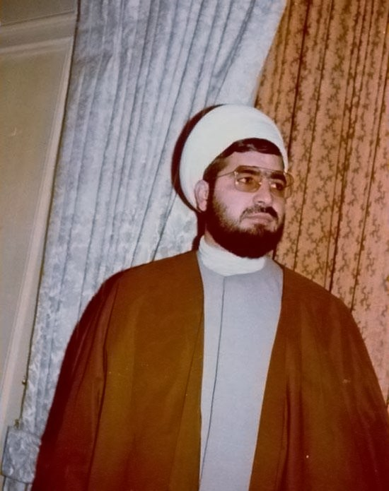 Hassan Rouhani in theologian uniform (Talabegi clothes)